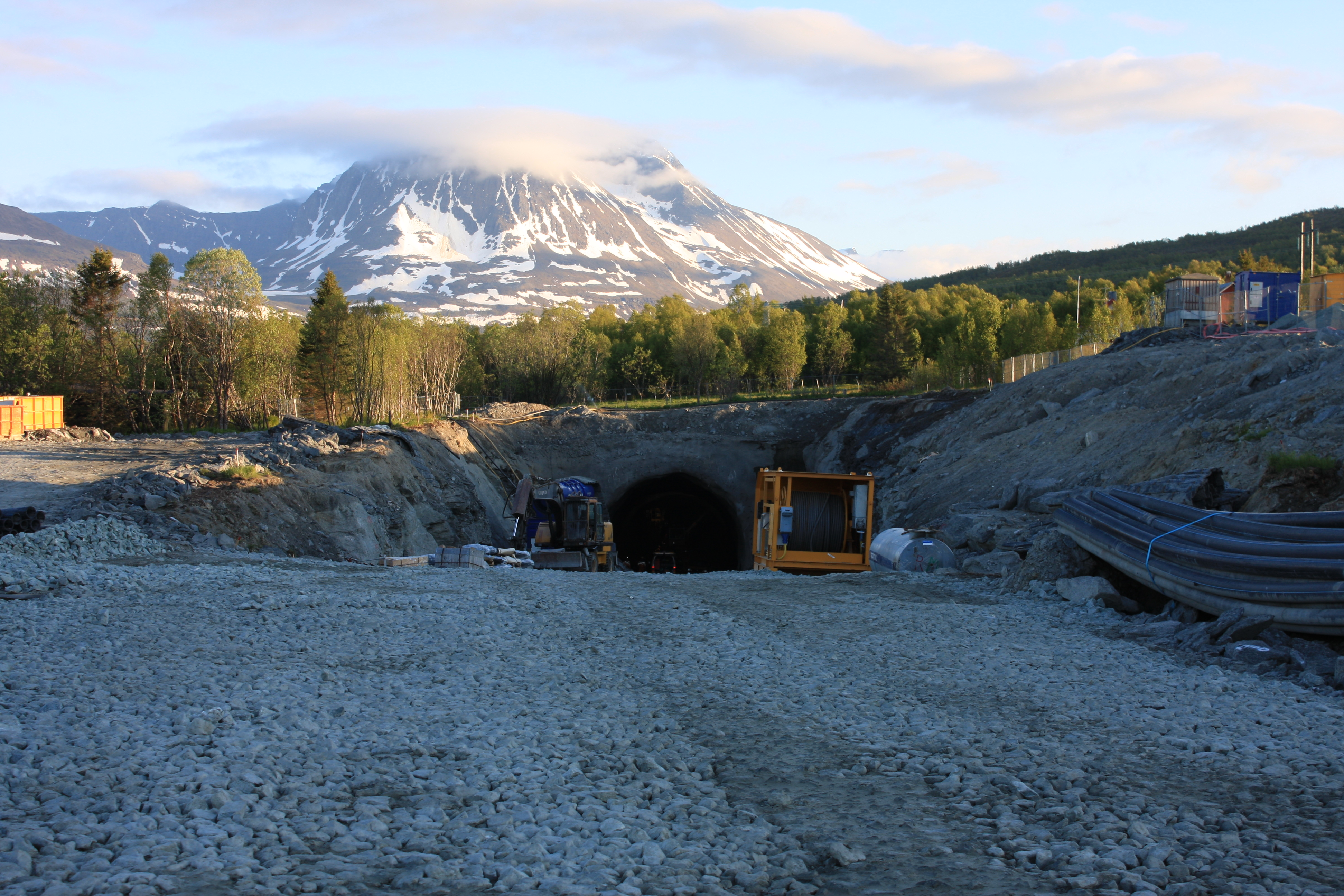 The construction site of the undersea tunnel (Ryaforbindelsen) with the peninsula Malangshalvøya in the background.